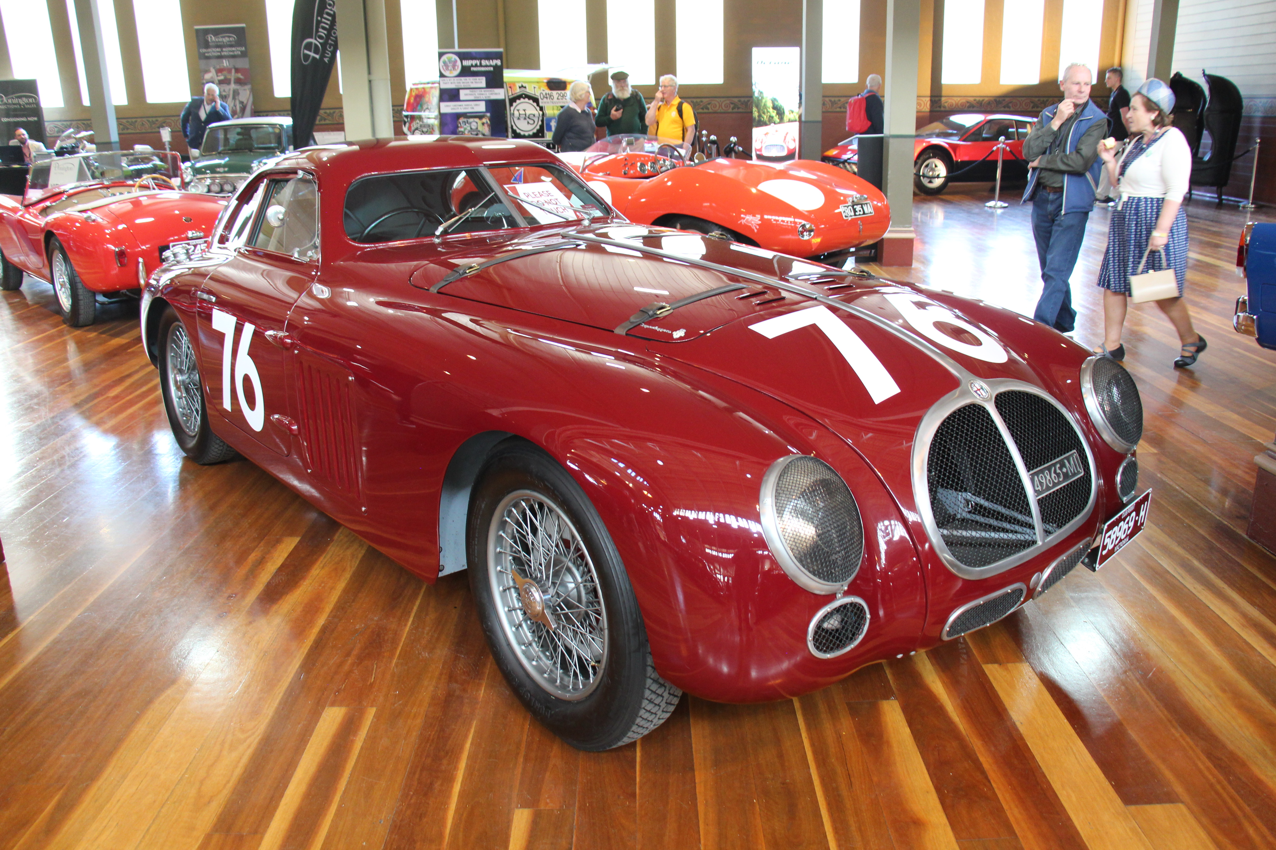 Alfa Romeo 6C 2500 SS "Corsa" Berlinetta Touring of 1939 that raced in 1940 Mille Miglia in exposition